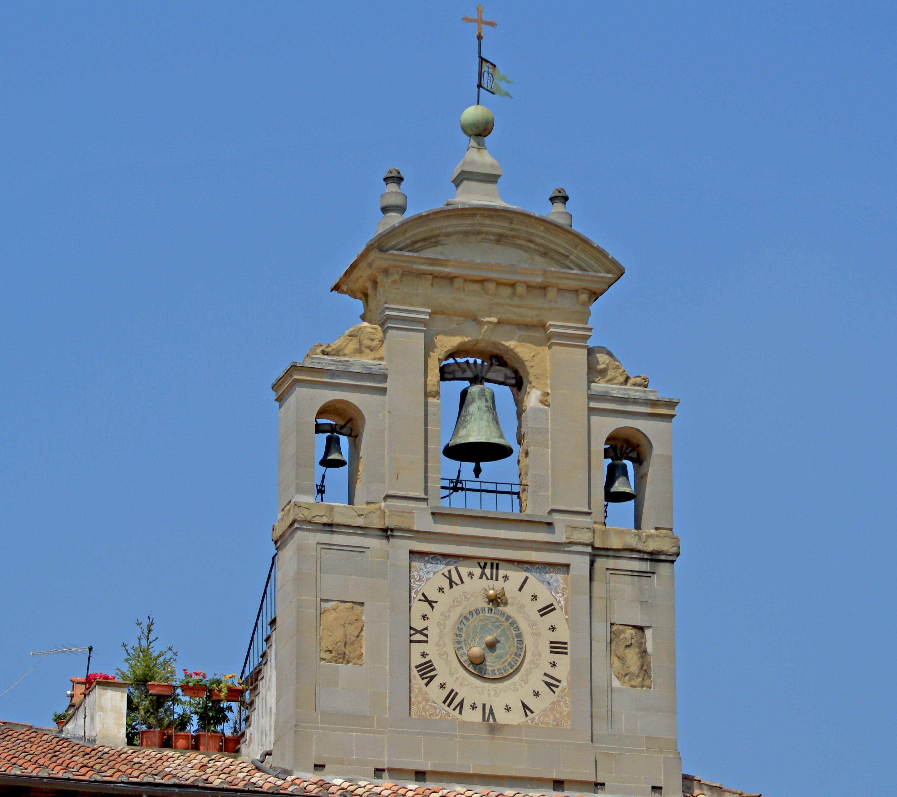 Palace of the Lay Fraternity in Arezzo - Bell gable work of Giorgio Vasari (1549) is famous for its astronomical clock made by Salvatore Felice Moat of 1551-1552.